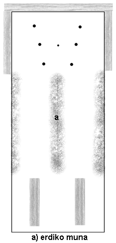 Graphic for the Olazabalgo bola jokoa